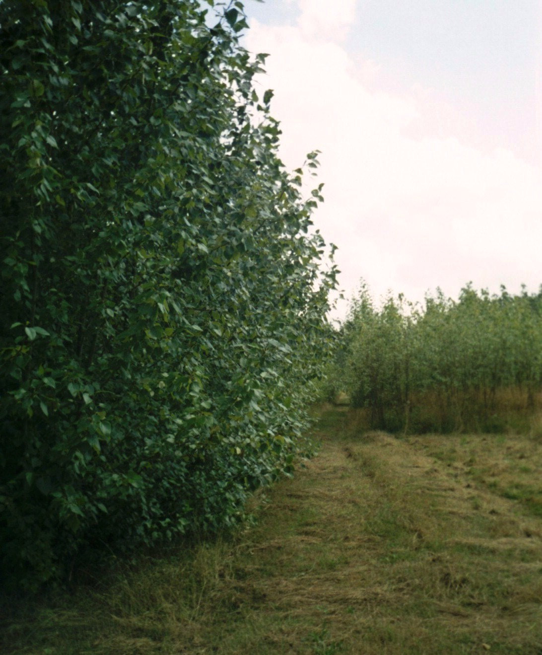 Poplar taken in Hampshire, England